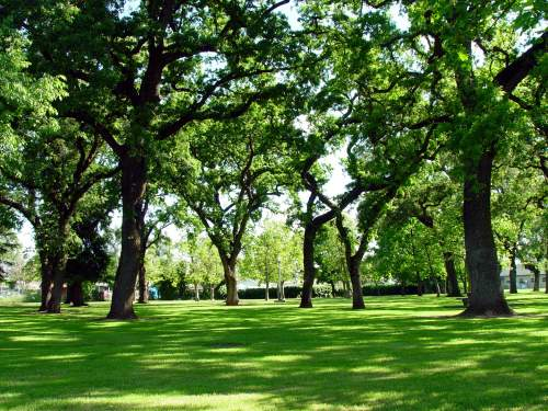 great lawn area at Vierra Park